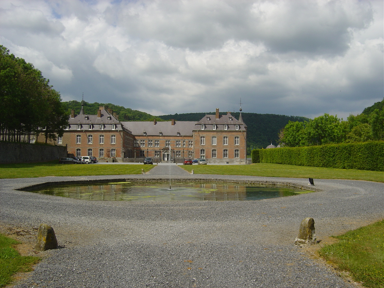 View on the castle of Freÿr (Waulsort) and its gardens (XVII/XVIIIth centuries) from the entry gate